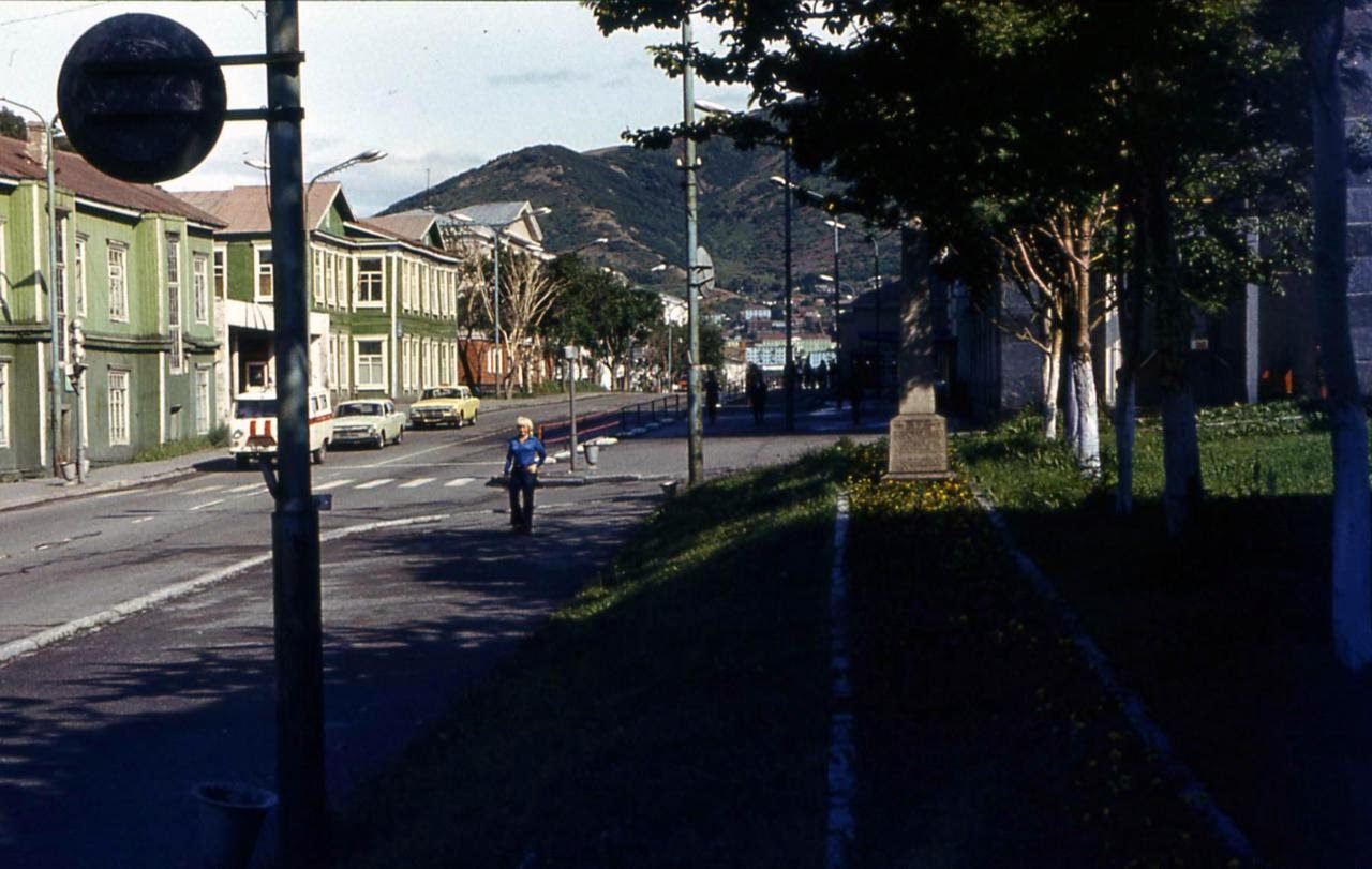 The grave of Charles Clerke (on the right) in the center of the city